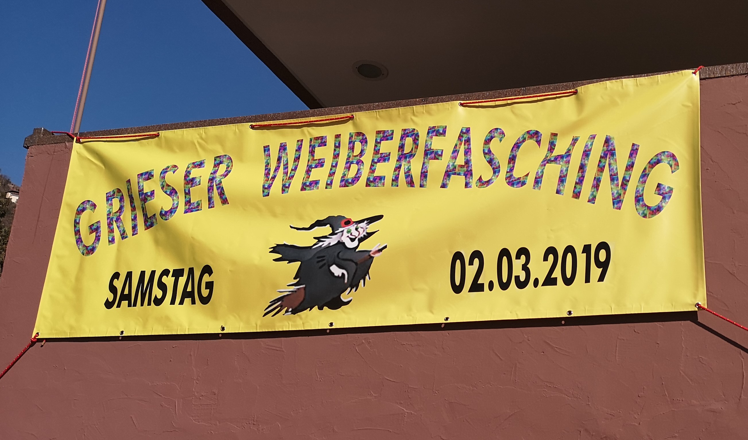 Women carnival ("Weiberfasching") in Gries-Bozen 2019